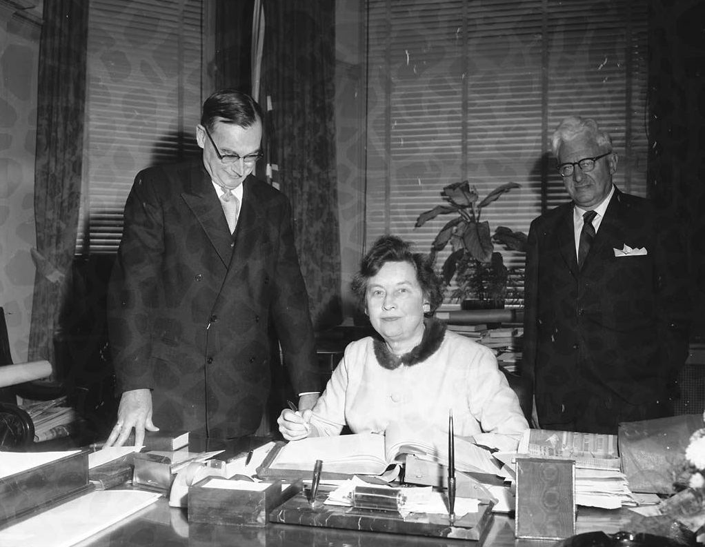 Jean Newman being sworn in as a city controller in Toronto, Ontario, Canada. From left to right: Hon. James C. McRuer, Con. Jean Newman, Mayor Nathan Phillips, in the mayor's office at Old City Hall. Newman was elected in 1954 to represent Ward 9 (North Toronto). In 1956, she became the first woman elected to the powerful Board of Control, wining the most votes of the four controllers elected, and thus gained the powerful budget chief position. In 1960, she became the first woman to run for Mayor of Toronto, placing third behind mayor Nathan Phillips and former mayor Allan Lamport.